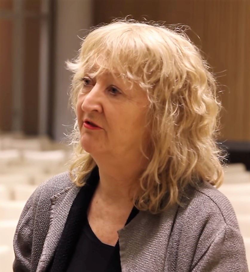 arcVision Prize 2015 – Women and Architecture – YVONNE FARRELL i.lab Italcementi Group, Bergamo (Italy) – March, 5/6 2015 Yvonne Farrell, together with Shelley McNamara, is a founder of Grafton Architects – their office, which opened in Dublin in 1977. They are Fellows of the Royal Institute of the Architects of Ireland and International Honorary Fellows of the RIBA. They achieved international fame with the design and construction of the spectacular new building for Bocconi University in Milan, completed in 2008. Their practice began with experimenting with a sophisticated take on European modernism moving toward high-profile public buildings (the Solstice Art Center, Navan 2006; the Office of Public Works, Dublin 2008). They have received many awards for their work (Building of the Year 2008, for the new Bocconi University Building), as well as the Leone d’Argento at the Venice Architecture Biennale in 2012. Yvonne Farrell and Shelley McNamara are Professors in the Accademia di Architettura in Mendrisio and Adjunct Professors in University College Dublin. They have been Visiting Professors in Yale and the Harvard Graduate School of Design. Current work includes IMT University, Paris/ Saclay; New City Library, Dublin and the recently inaugurated UTEC University Campus in Lima, Peru. ArcVision Prize 2015 by Italcementi Group, III edition: SCIENTIFIC DIRECTOR Stefano Casciani THE JURY Shaikha Al Maskari Vera Baboun Daria Bignardi Odile Decq Yvonne Farrell Louisa Hutton Suhasini Mani Ratnam Samia Nkrumah Benedetta Tagliabue Martha Thorne ______________________________________________________________ AMOR VACUI / INTERVIEWS In collaboration with archiworld.tv: Giorgio Scianca Amor Vacui: Marzio Di Pace, Claudia Palumbo, Rosa Sessa Interviews: Claudia Palumbo, Rosa Sessa Video and editing: Marzio Di Pace